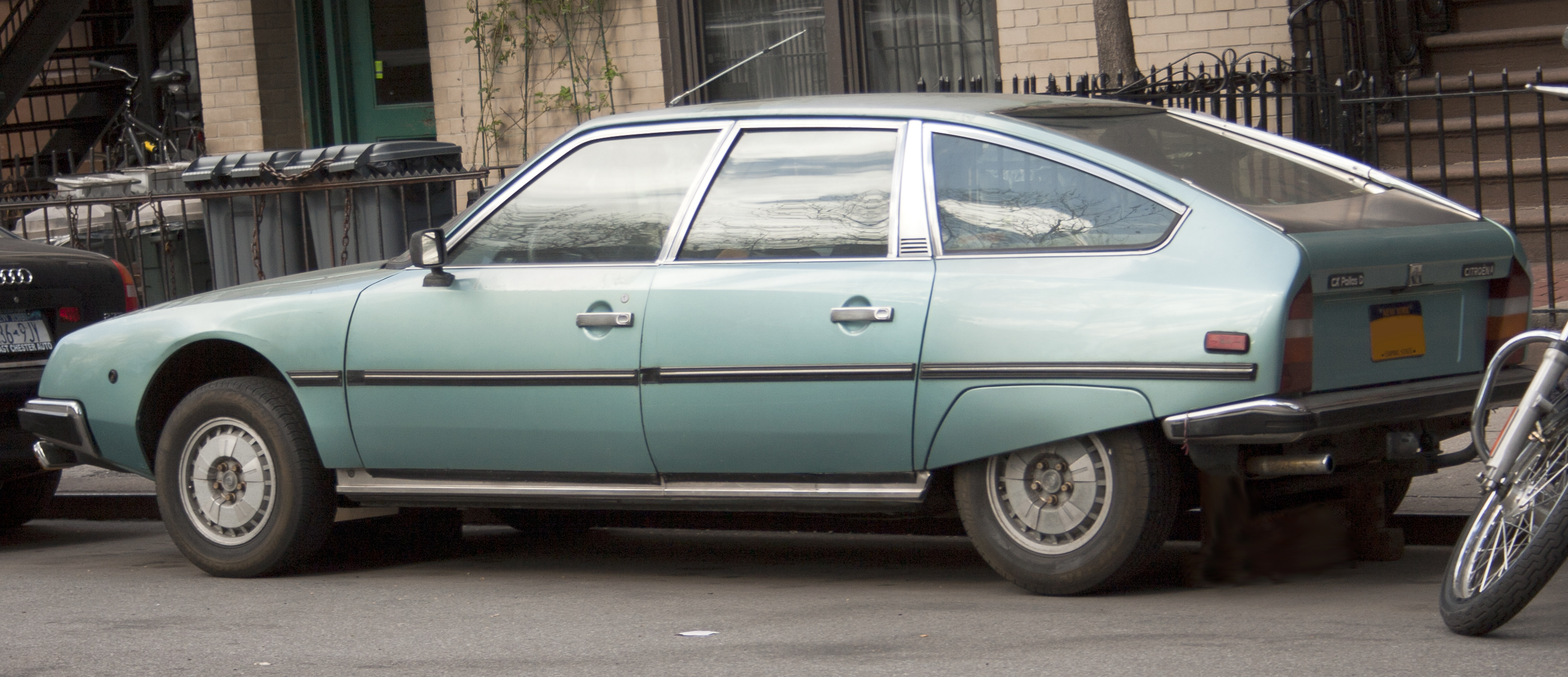 A 1981 Citroën CX Pallas D, in the US although it retains Euro-spec bumpers and lights.